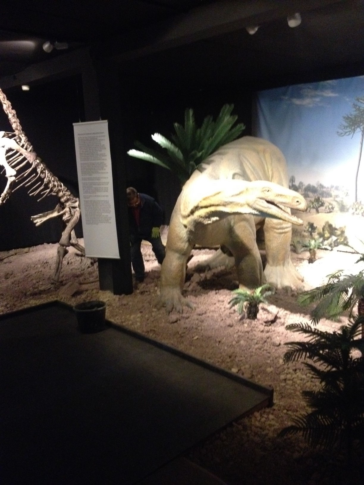 Inside of the Dinosaurus - Exhibition at Museum Auberlehaus, Trossingen